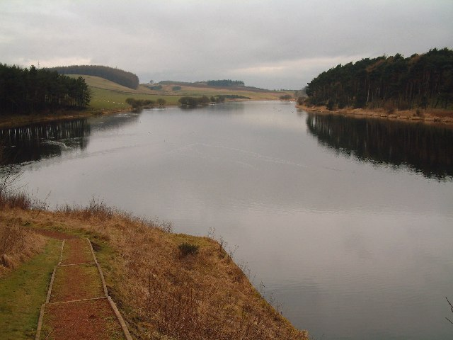 Clatto Reservoir. Nature reserve, seen from the east, close to the dam.